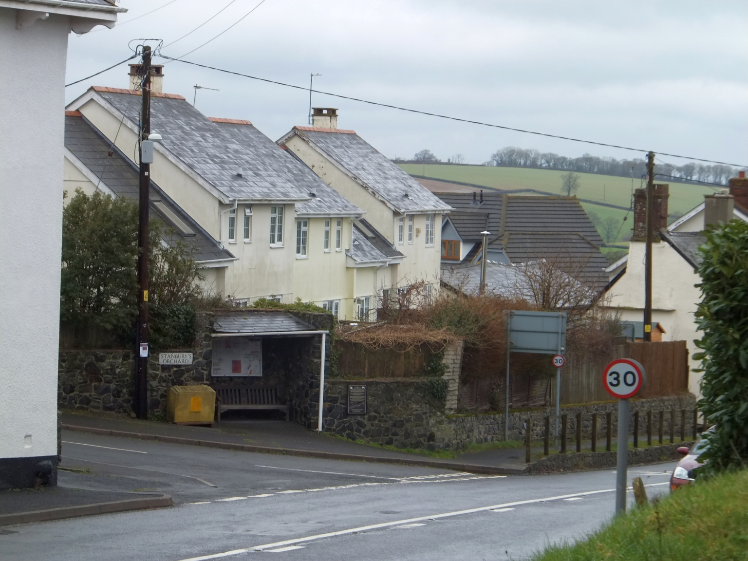 Stanbury's Orchard, Crockernwell